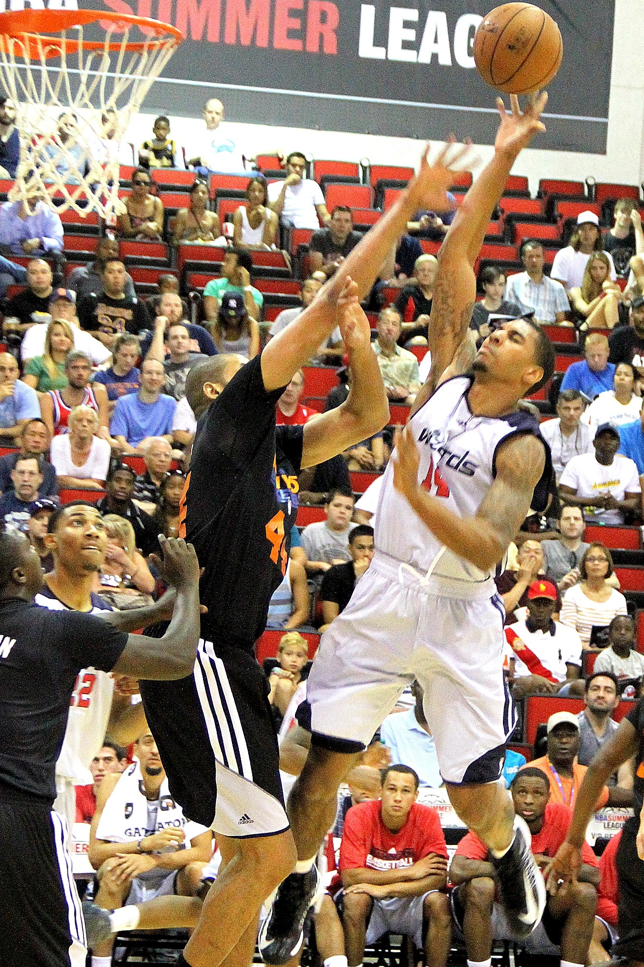 Glen Rice Jr, with the Washington Wizards in the 2013 Summer League